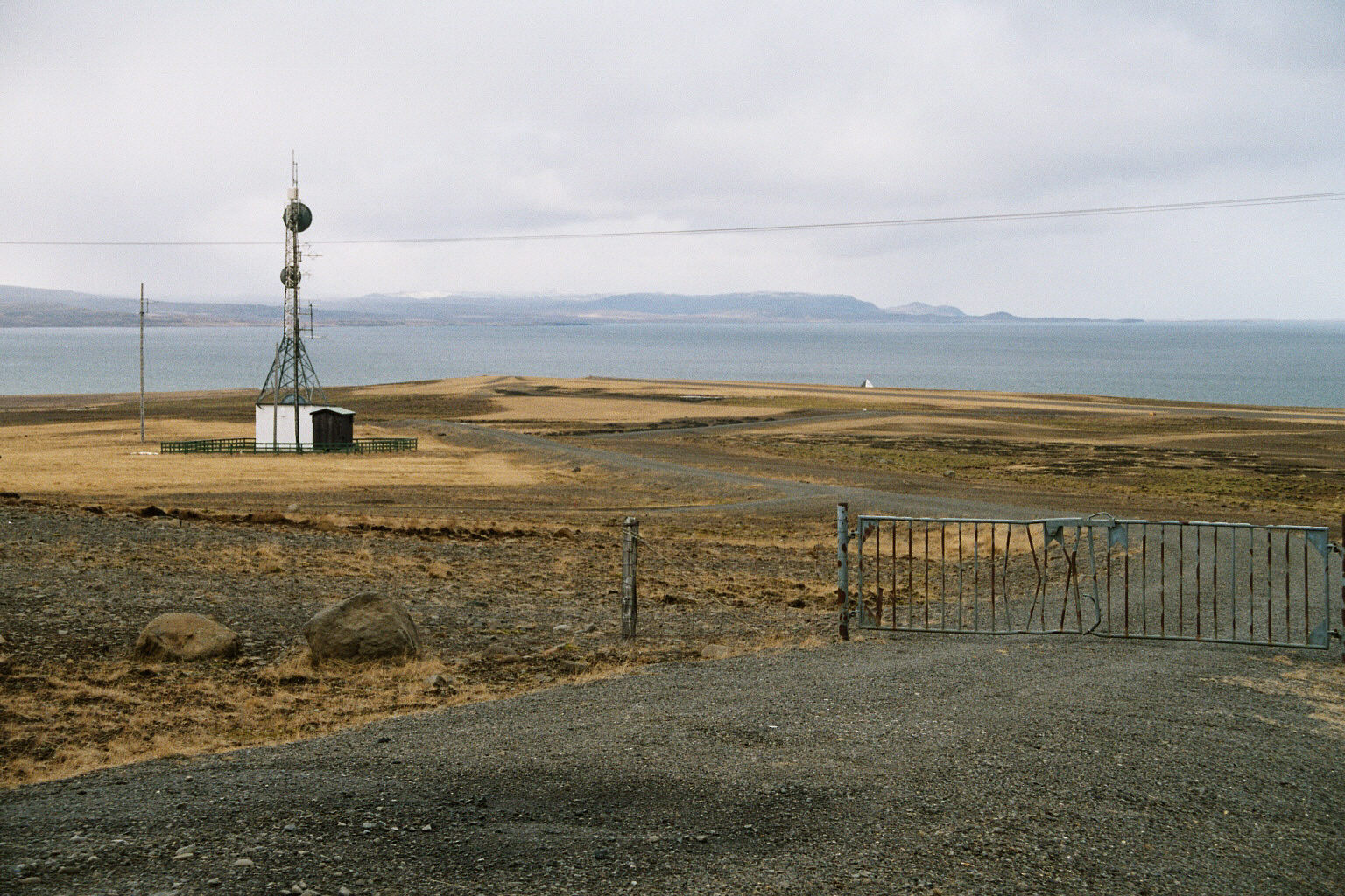 Breiðafjörður, Iceland, GNU-FDL I took the picture my-self in april 2004, no other copyrights involved. The photo shows the Hvammsfjörður and the Breiðafjörður seen in the direction of Snæfellsnes. Reykholt 13:21, 25 May 2004 (UTC)